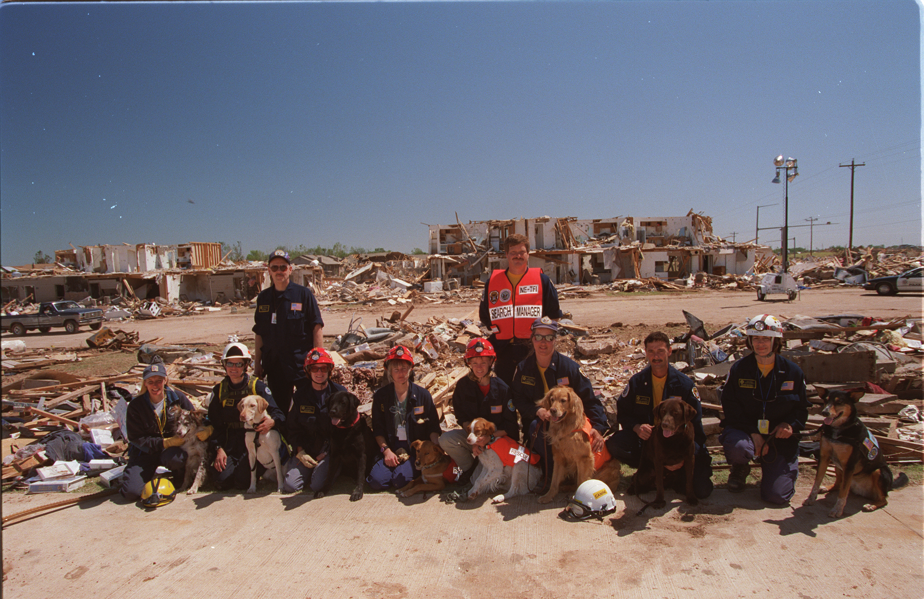 Oklahoma, May 4, 1999 -- Urban Search and Rescue teams worked to recover missing persons after the devastating tornado. Thirty eight people were killed in Oklahoma and over 1,500 houses were destroyed. Photo by Andrea Booher/ FEMA News Photo